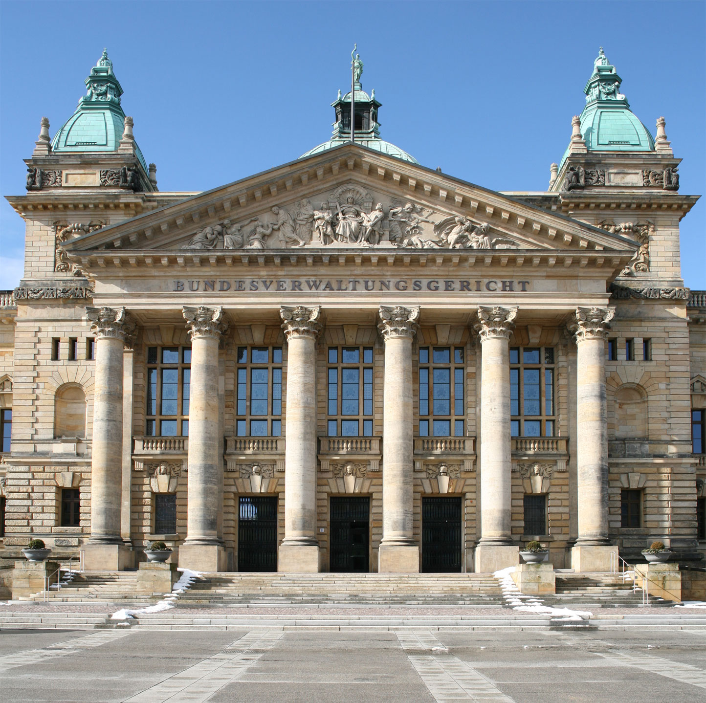 Reichsgerichtsgebäude Leipzig, Germany, today Bundesverwaltungsgericht; ISO 100, 24 mm, 7.1, 1/125, perspective correction